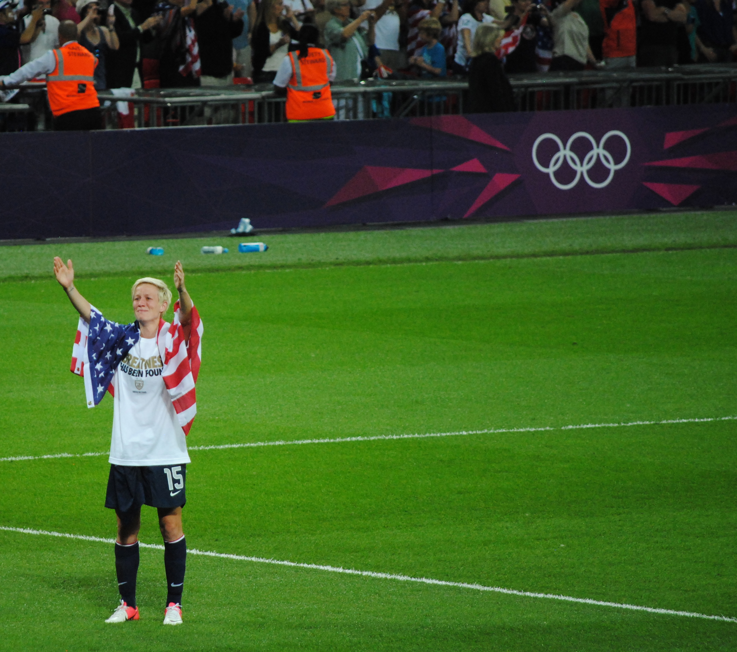 Megan Rapinoe at the 2012 Summer Olympics final